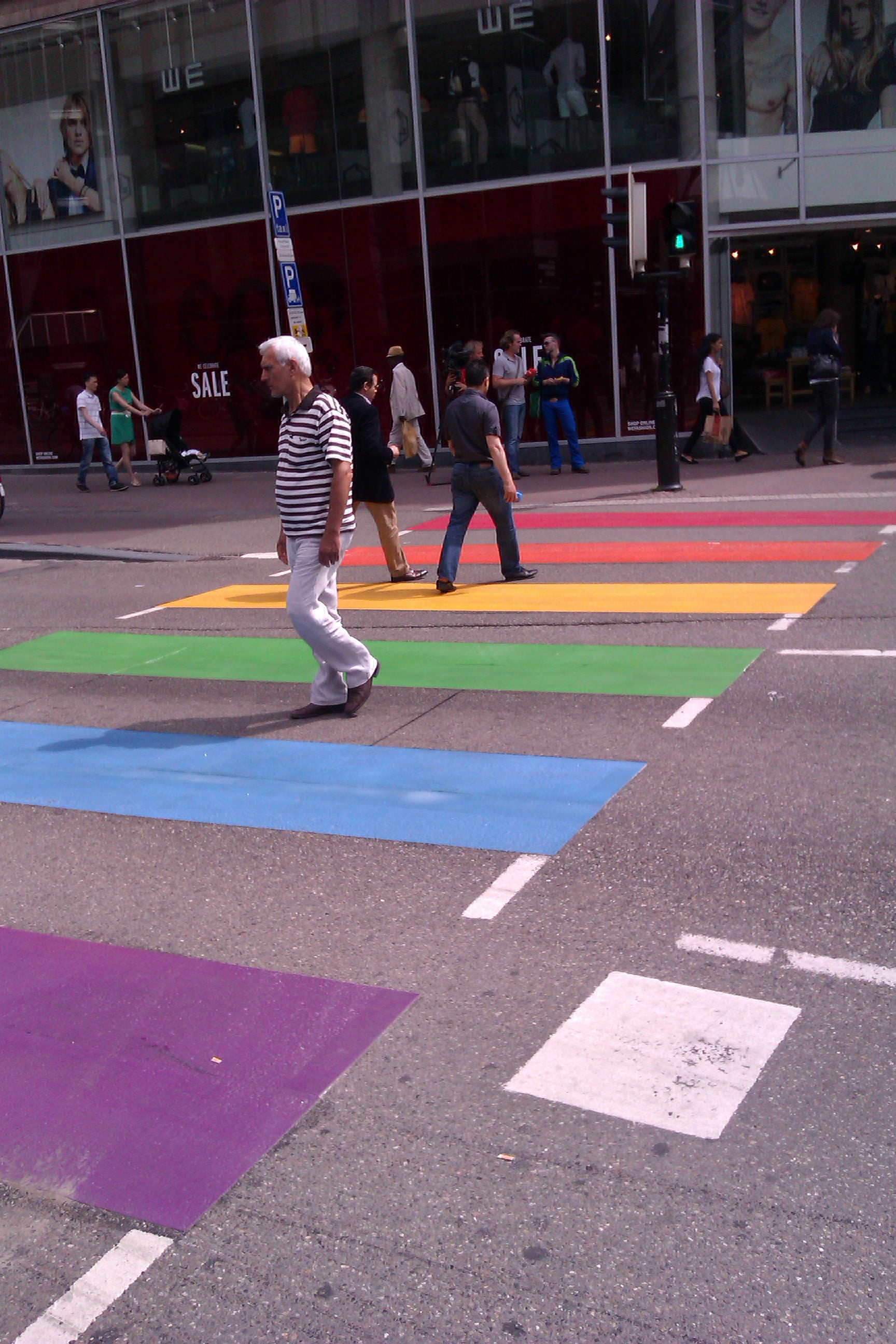 Pedestrian crossing painted in rainbow colours, Lange Viestraat, Utrecht, The Netherlands, June 19 2013.